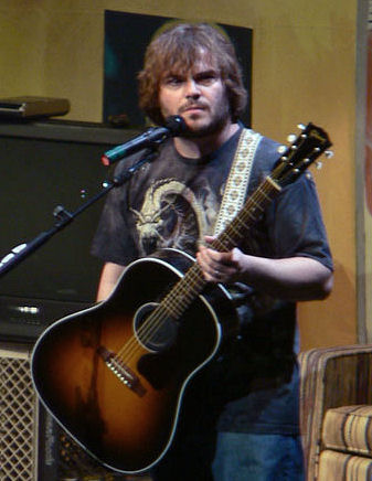 Jack Black playing with Tenacious D. at the Gibson Amphitheatre, Universal City, CA, November 17, 2006; Pick of Destiny tour